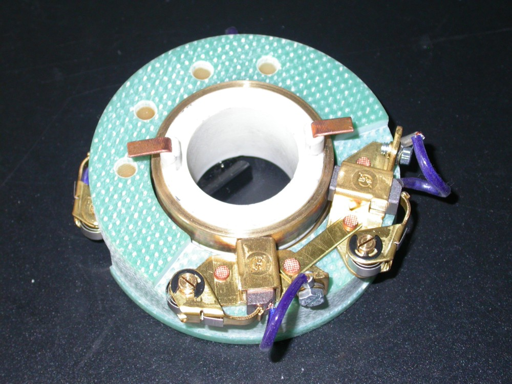 slip ring of a motor, 2 connectors - one pair of brushes is covered on the backside